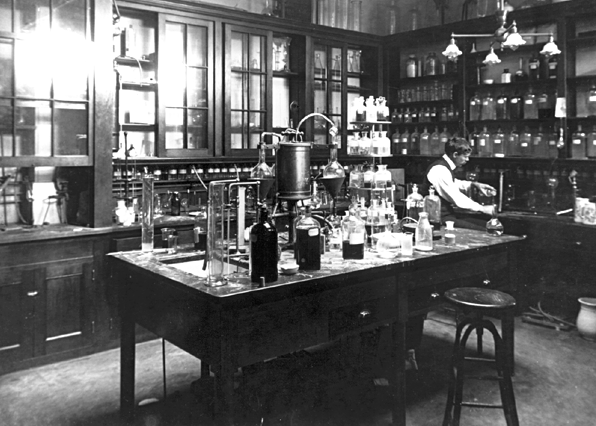 A.H. Folsom. Otto Folin in biochemistry lab at McLean Hospital, Service Building, ca. 1905. Albumen print. McLean Hospital Archives